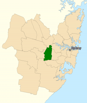 Incorporates or developed using Administrative Boundaries ©PSMA Australia Limited licensed by the Commonwealth of Australia under Creative Commons Attribution 4.0 International licence (CC BY 4.0). Derived from State and Territory Boundaries from the Australian Bureau of Statistics under Creative Commons Attribution 2.5 Australia license (CC BY 2.5 AU)